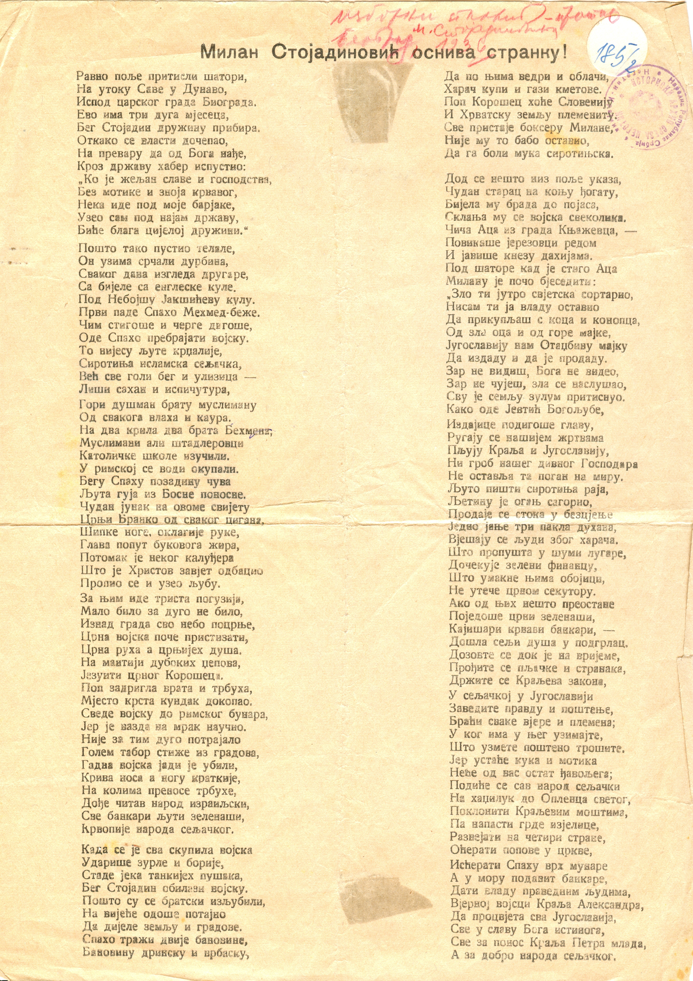 Yugoslav Radical Community, Poster for the 1936 elections against Milan Stojadinovic Srpski (latinica): Jugoslovenska radikalna zajednica, Predizborni plakat iz 1936. godine protiv Milana Stojadinovića